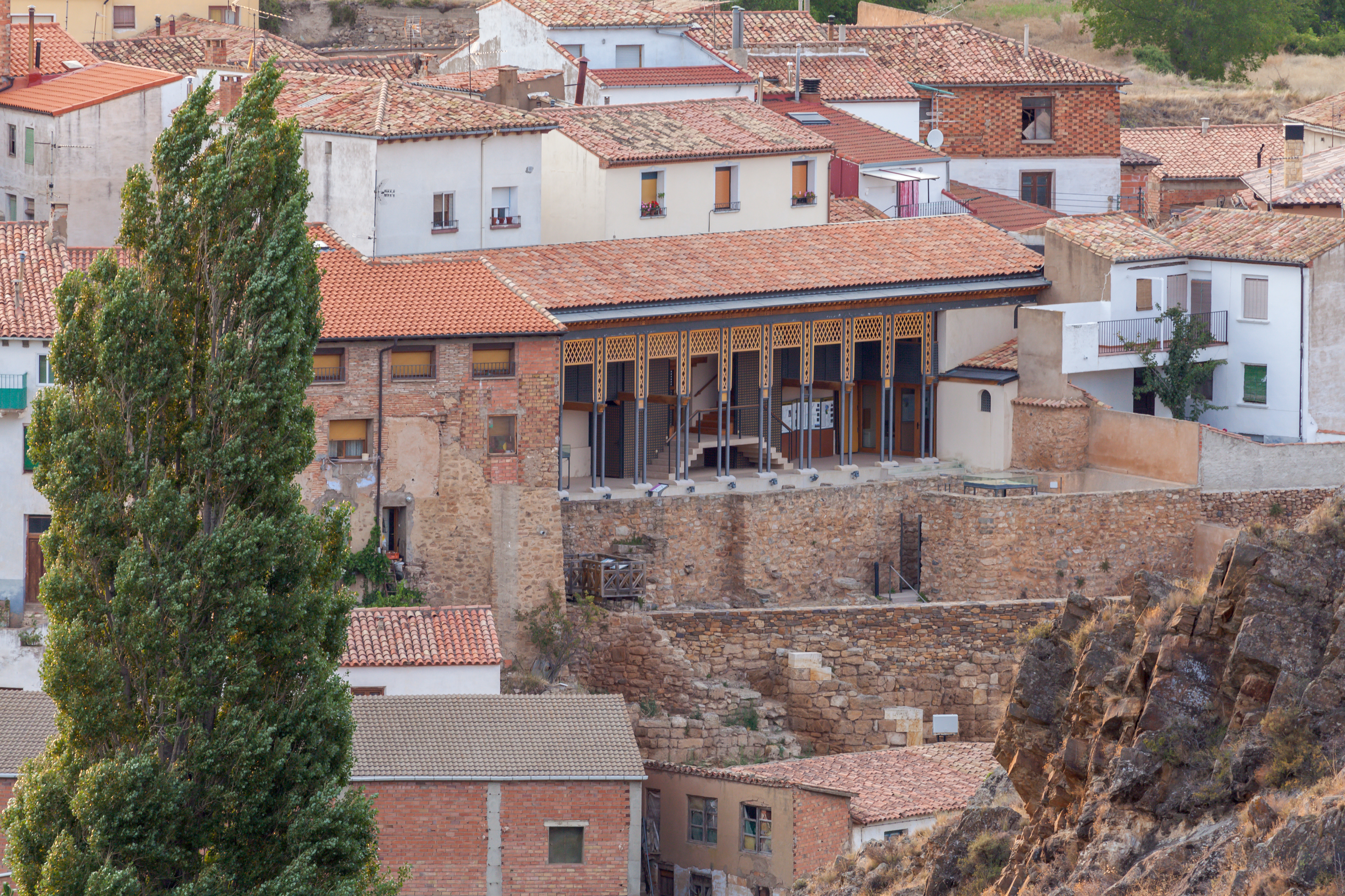 Arabic wall, Ágreda, Spain